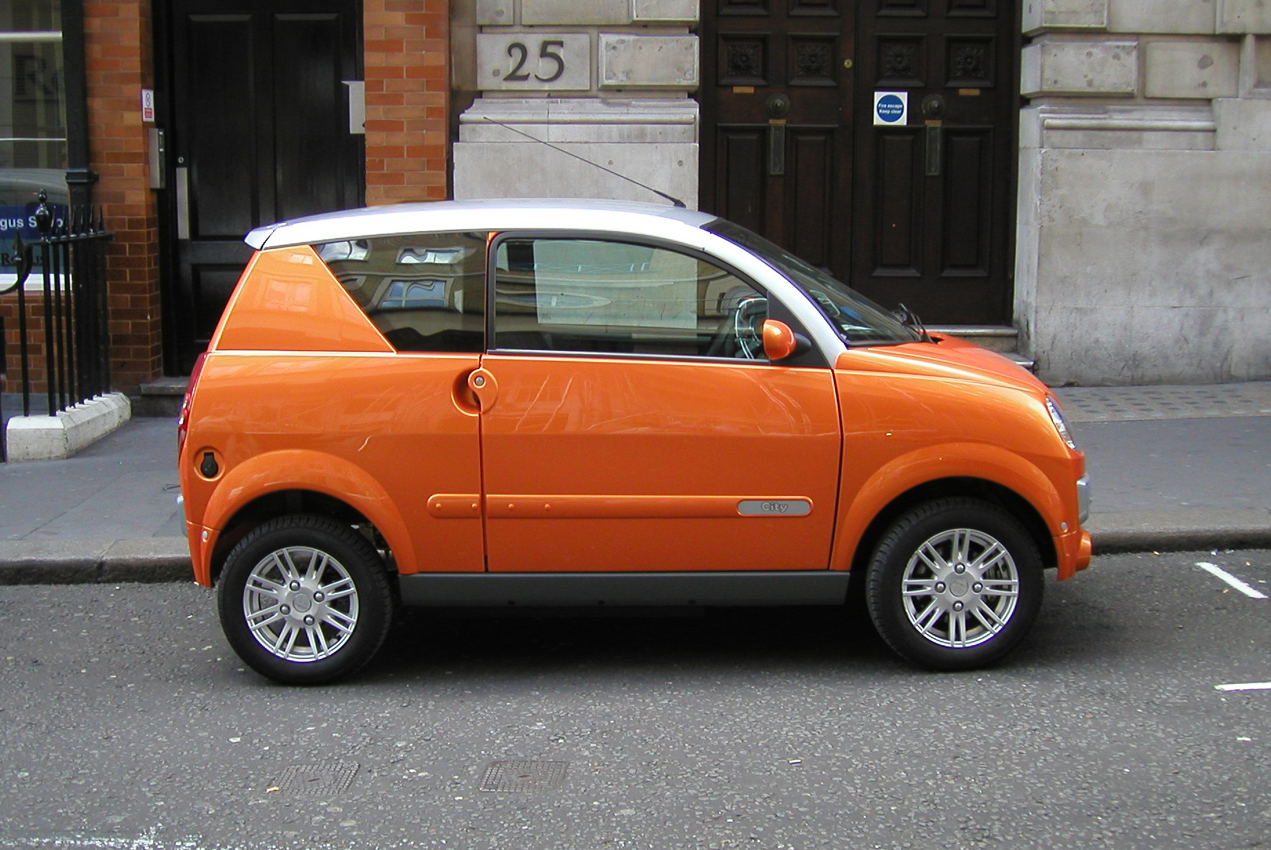 The MEGA City is exempt from the congestion charge, exempt from road tax and you can benefit from free parking in many London locations. From £10,498 (batteries included)